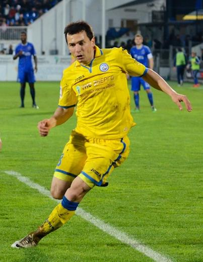 Azim Fatullayev playing for FC Rostov.